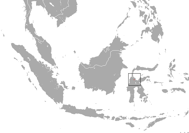 Mossy Forest Shrew (Crocidura musseri) range